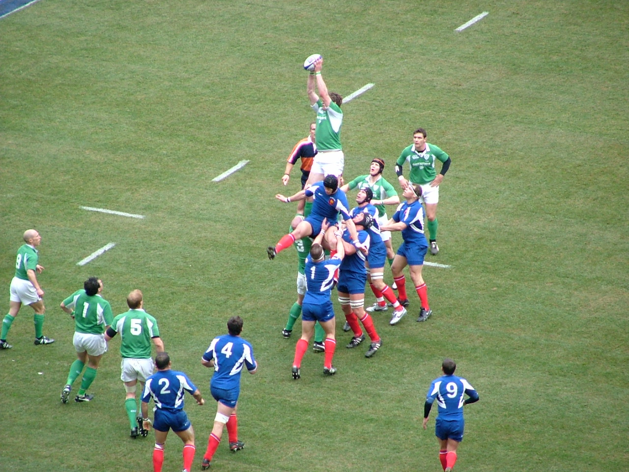 Ireland and France are contesting a lineout during the 2006 Six Nation championship